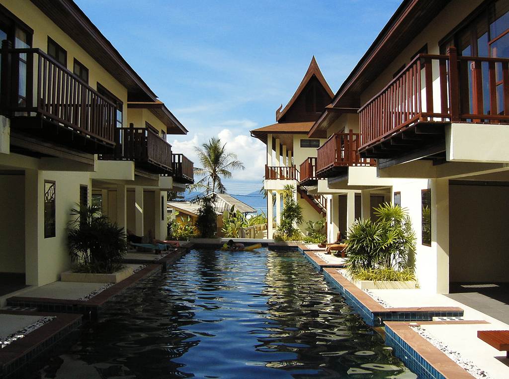 Typical Thai so-called "Boutique Resort" or "Boutique Hotel", a Thai hotel with 10 to 100 rooms. Florist Resort at Maenam Beach, Koh Samui - seen from entrance towards beachfront (apr/2006)